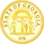 The Georgia (U.S. state) state seal.